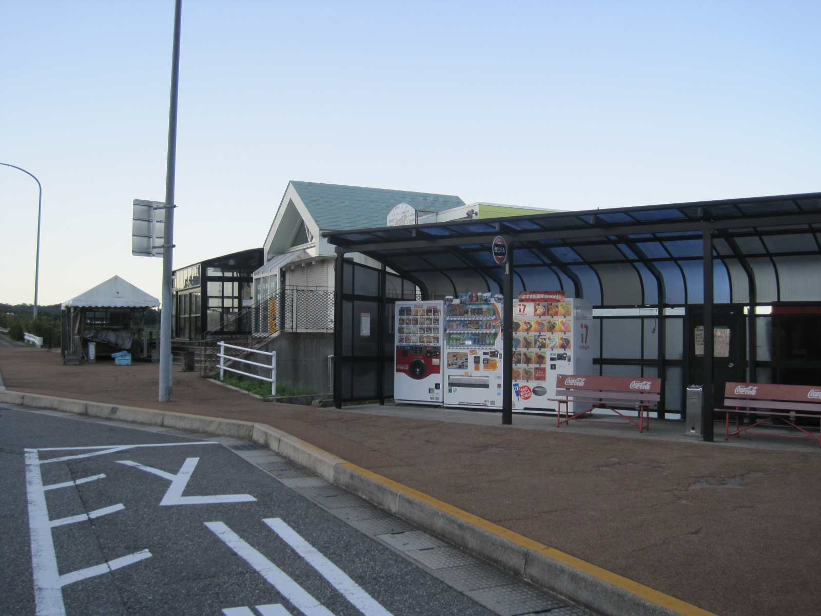 Nishiyama PA Bus Stop at Nishiyama Parking Area on the Noto Toll Road in Shika Town, Ishikawa Prefecture, Japan